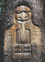 Indian carving in a tree